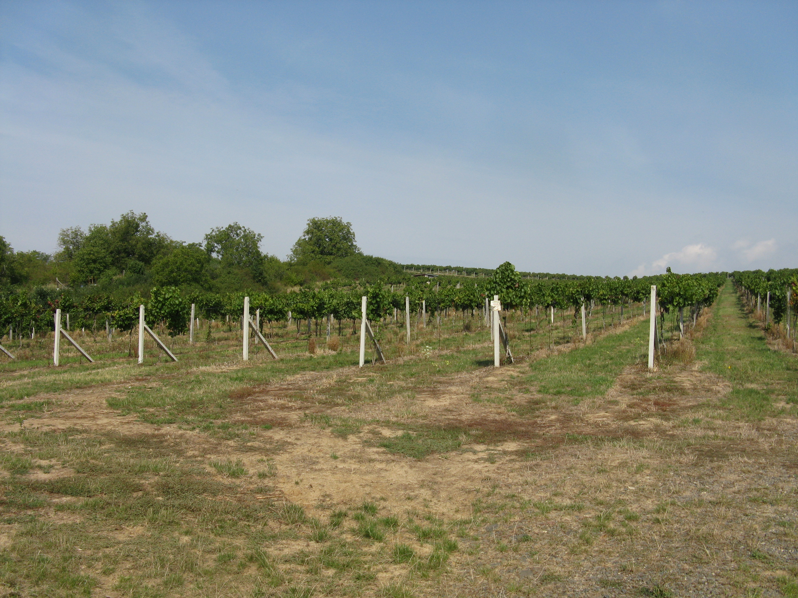 Village Brhlovce